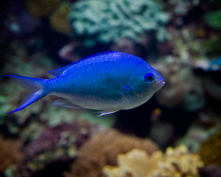 A very blue fish in the aquarium at the Houston Zoo